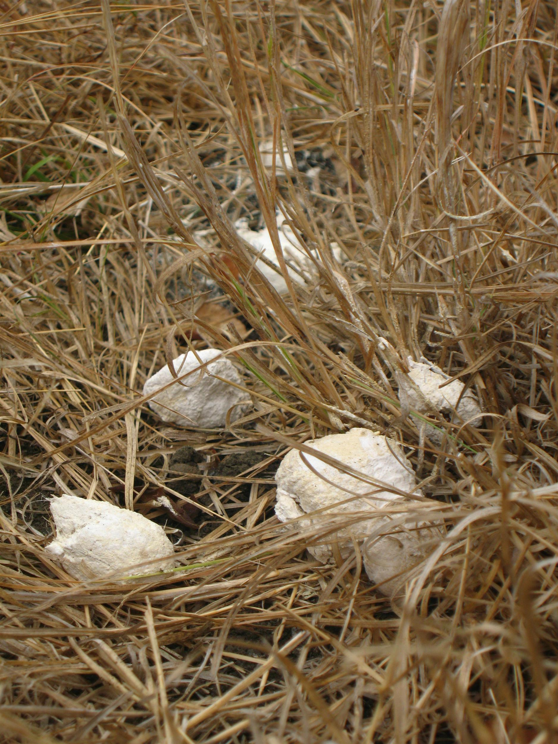 Komodo excrement is mostly white as the stomach is not capable of digesting the calcium found in the bones of the animals they eat.